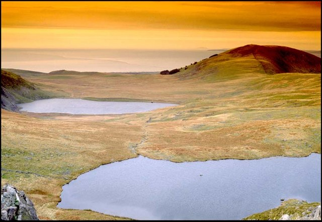 View from Crib y Rhiw Llyn Dulyn (foreground), Llyn Bodlyn (middle distance), the cliffs of Diffwys on the distant left, Moelfre on the right, Sarn Badrig out to sea and on the horizon I think you can see Bardsey Island. What a day that was.